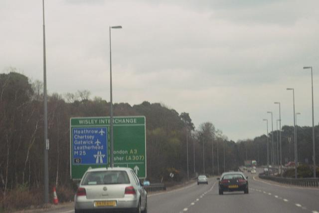 The A3 North, approaching the Wisley Interchange